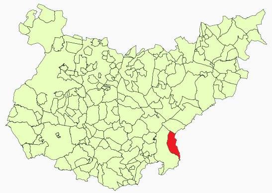 Granja de Torrehermosa